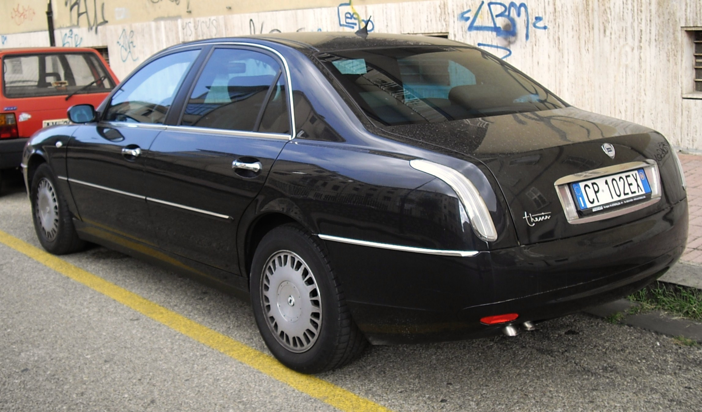 2004 Lancia Thesis